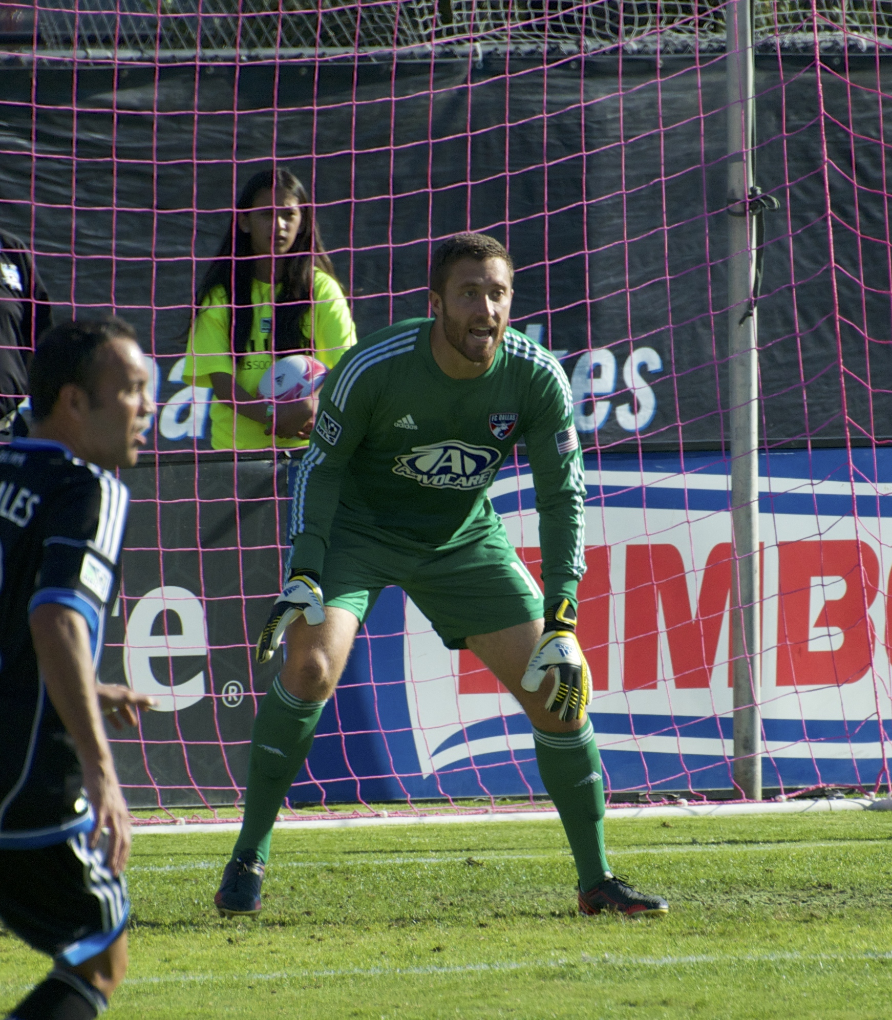 Chris Seitz, Buck Shaw Stadium, 26 October 2013